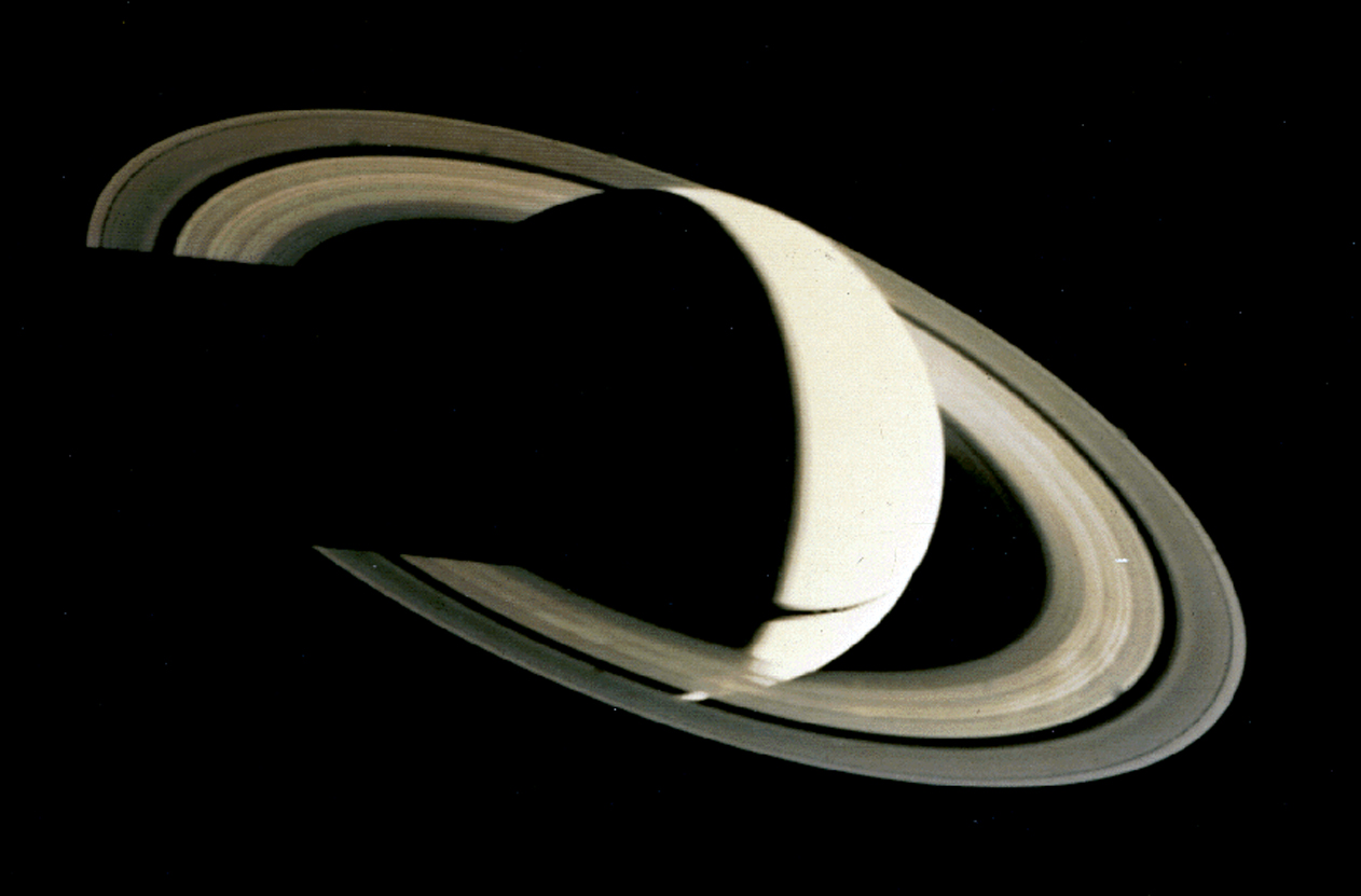 Voyager 1 image of Saturn from 5.3 million km four days after its closest approach. This perspective allows a view of Saturn looking back towards the sun. The shadow of Saturn can be seen on the rings, and Saturn can be seen through the rings as well. Some of the spoke-like ring features are visible as bright patches.